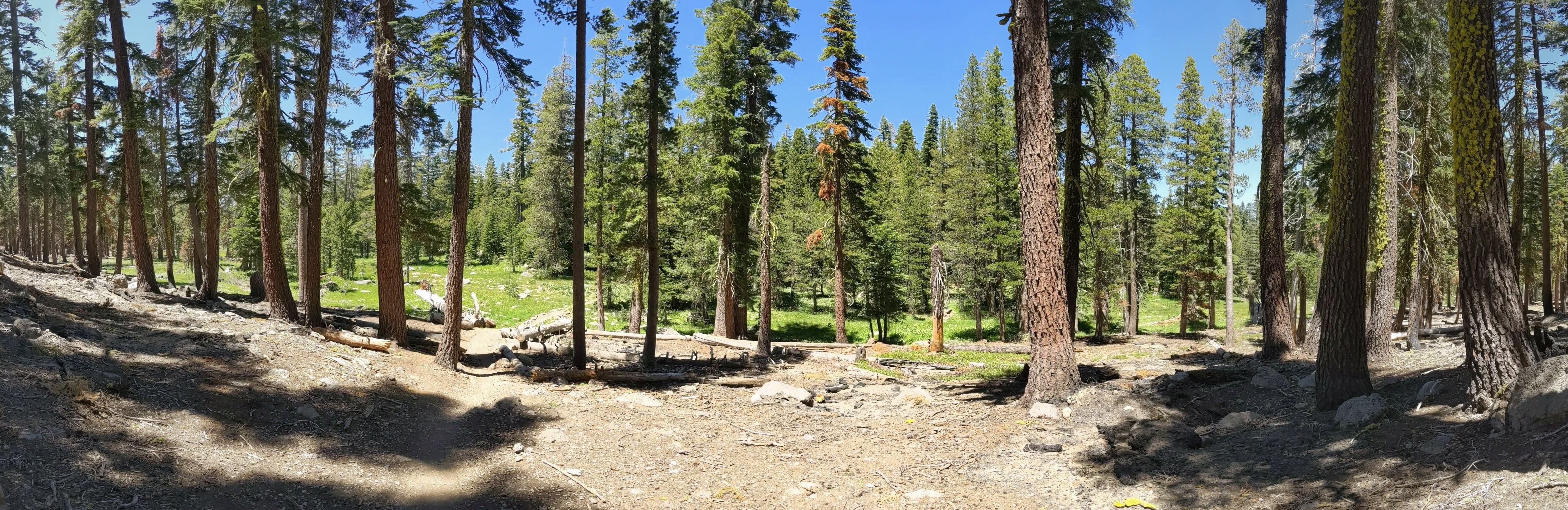 View looking north along the Tahoe Rim Trail, approaching the Watson Creek headwaters meadow, just north of Watson Lake (California)